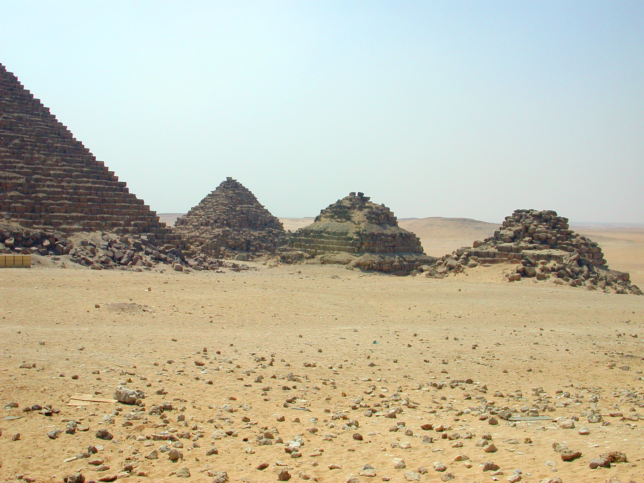 Queen Pyramids of Menkaure's Pyramid